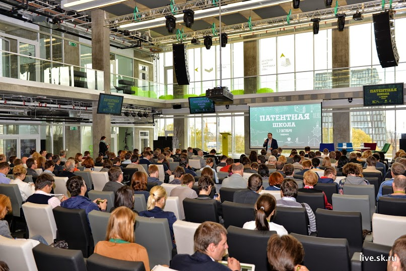 Opening of the first Skolkovo Patent School